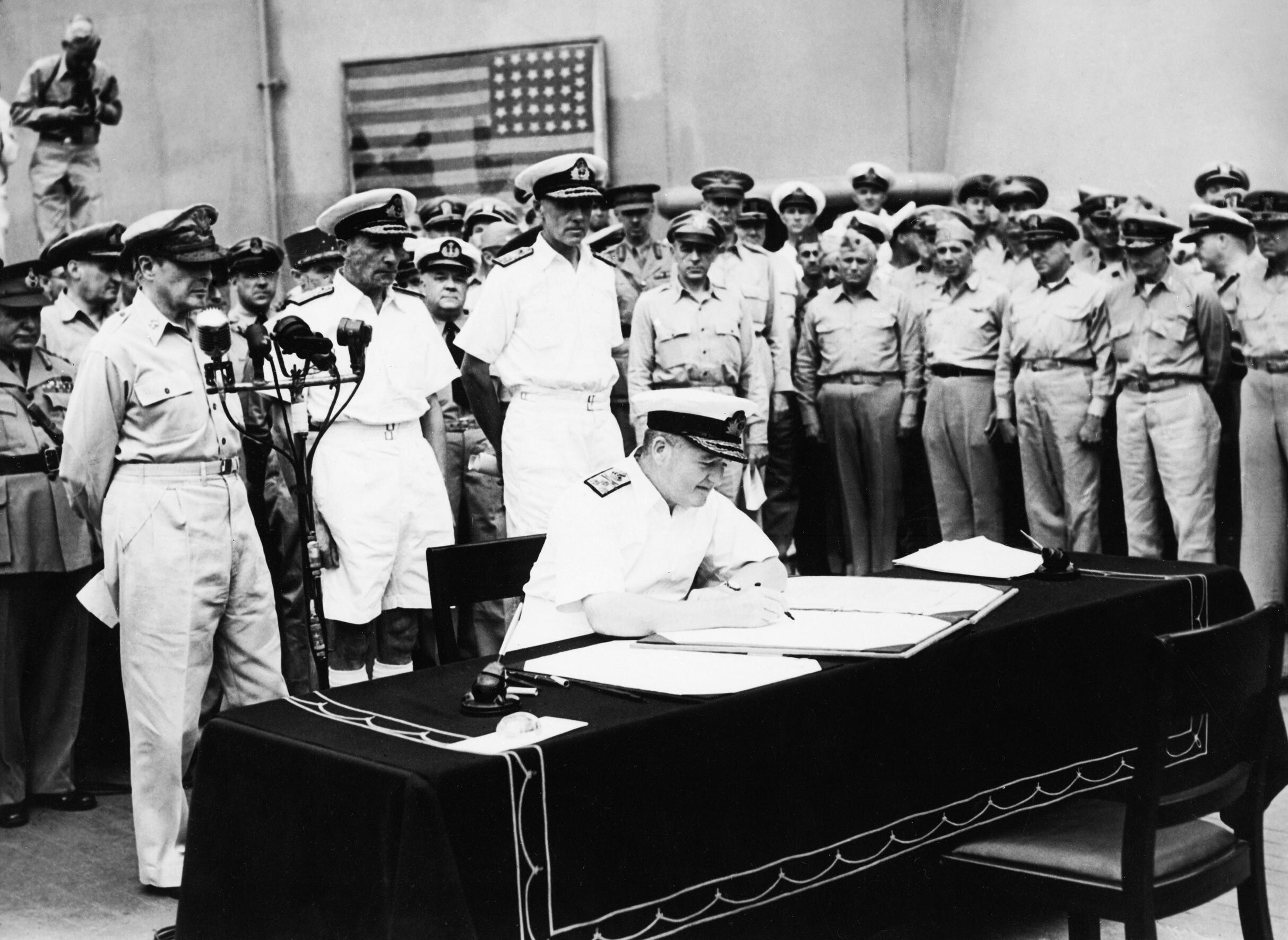 Admiral Sir Bruce Fraser signs the Japanese surrender document for Great Britain on board USS MISSOURI in Tokyo Bay, 2 September 1945. Admiral Sir Bruce Fraser signs the surrender for Great Britain on board USS MISSOURI.